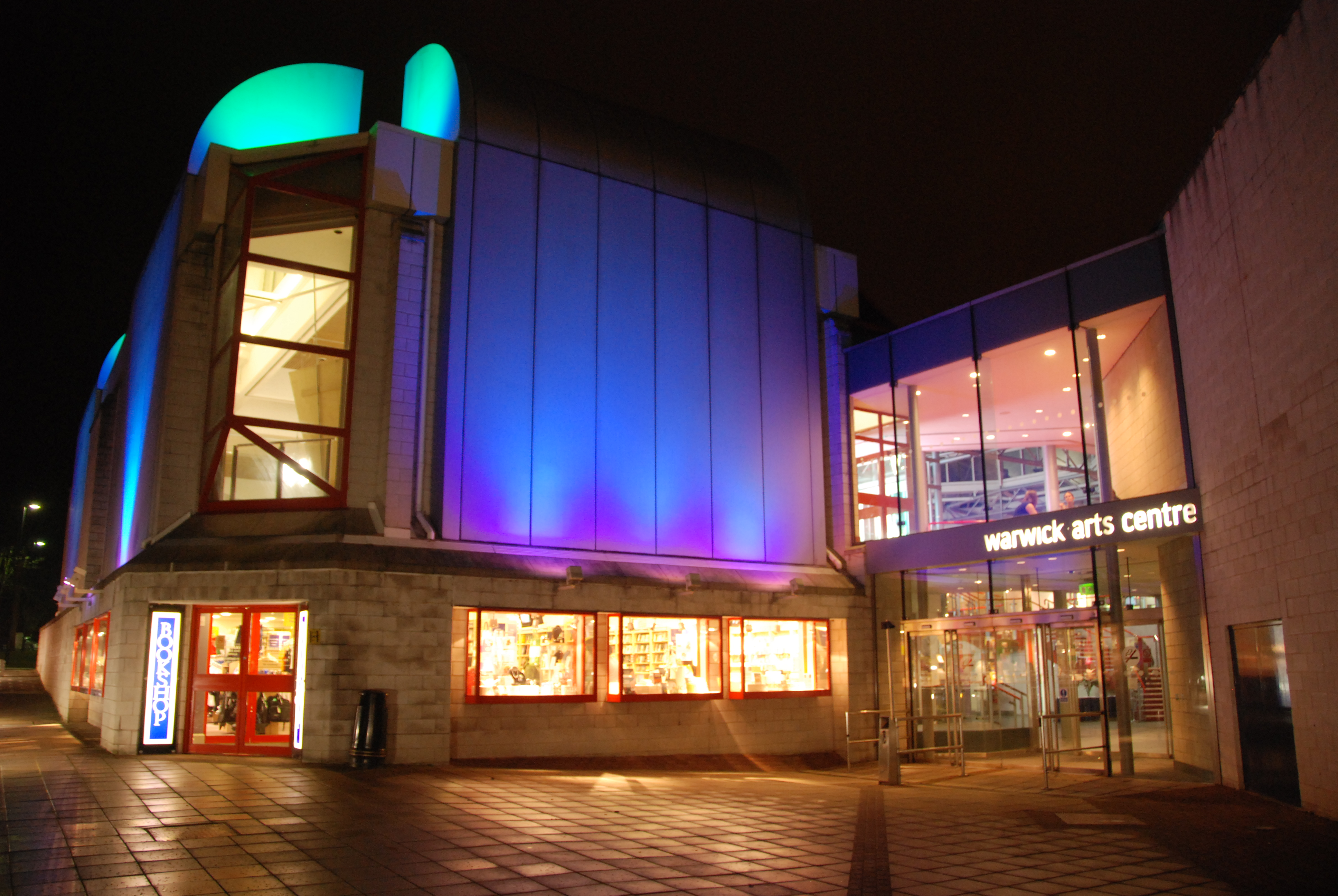 Warwick Arts Centre, at the University of Warwick, Coventry, England. Taken by Kyros Ho in 2008.